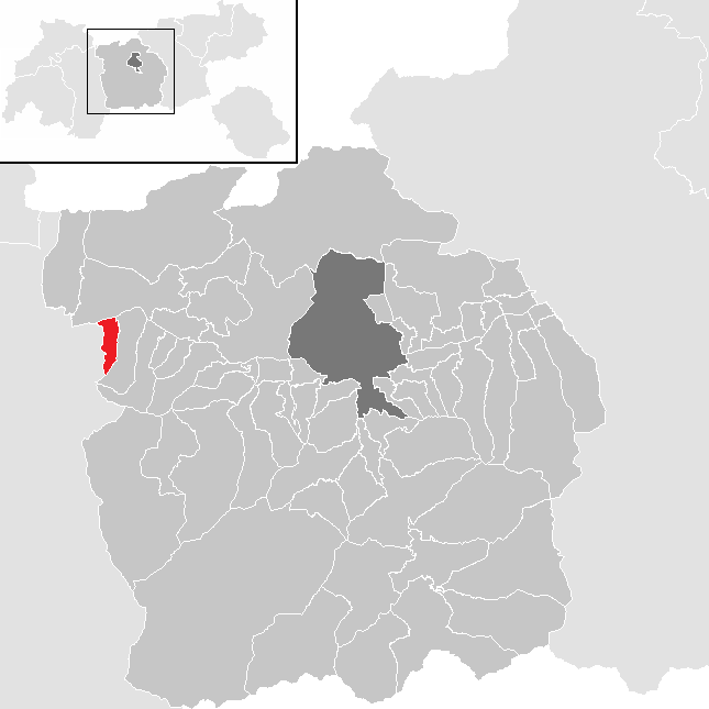 District Innsbruck Land